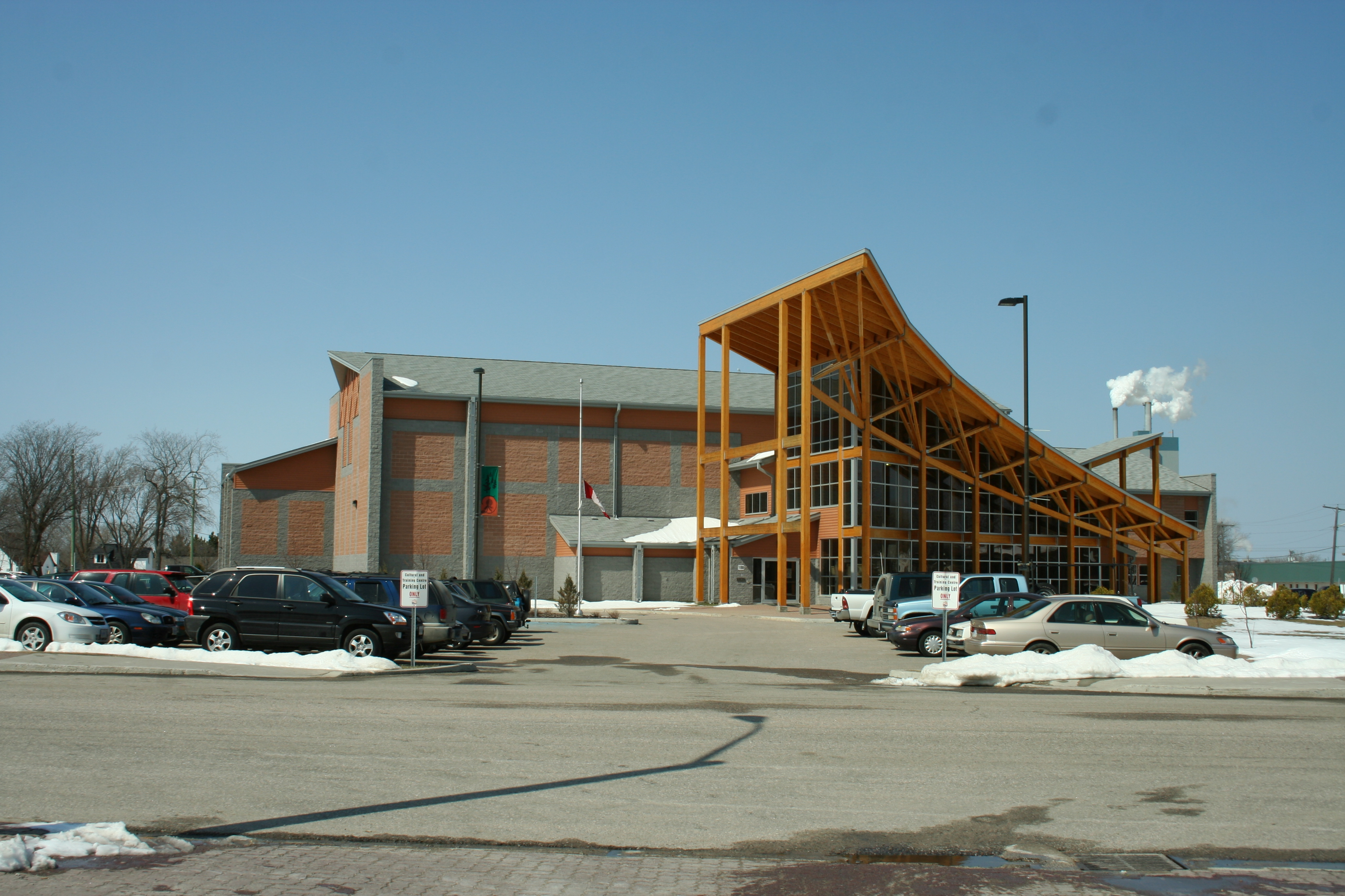 Picture of the Dryden Auditorium